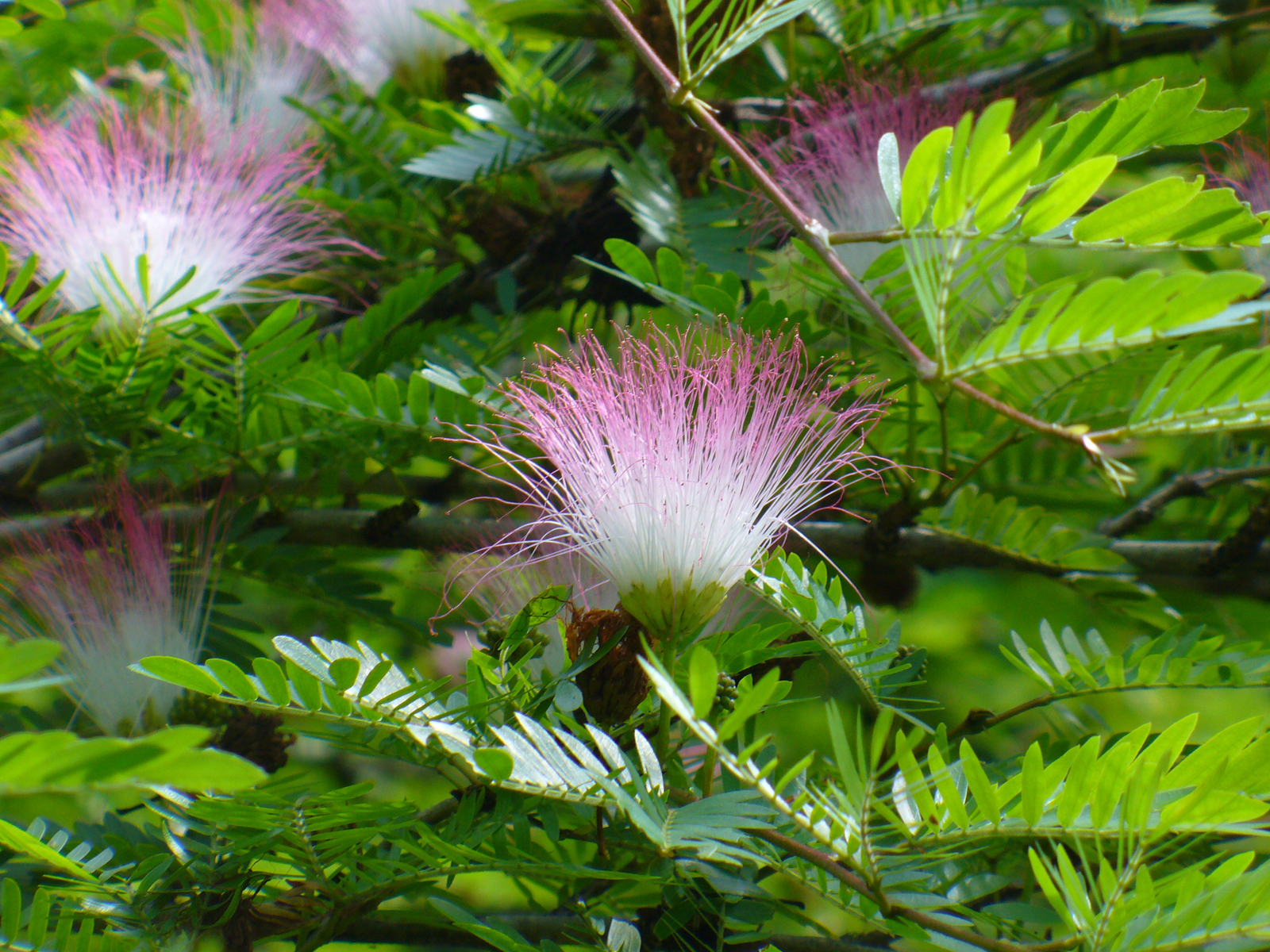 Fairchild Tropical Botanic Garden, Miami, Florida, USA